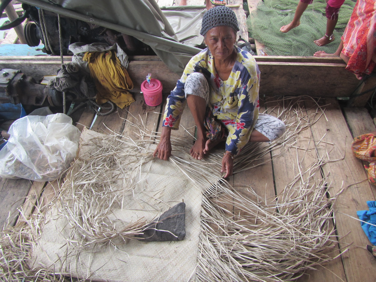 Sama woman making a traditional mat, Labuan Haji, Semporna, Malaysia